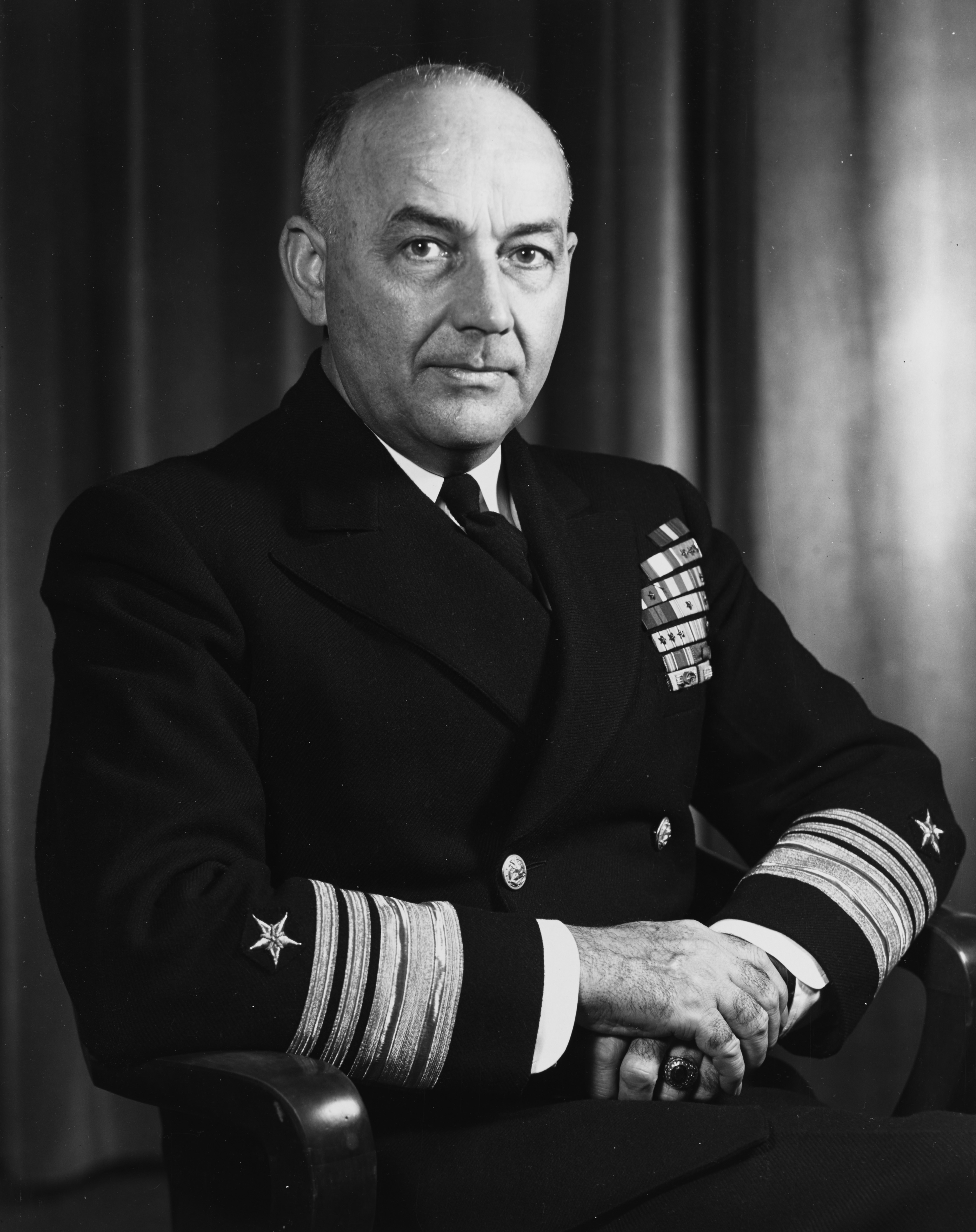 Removed caption read: Photo # 80-G-445461 Vice Admiral Arthur D. Struble, Sept. 1952